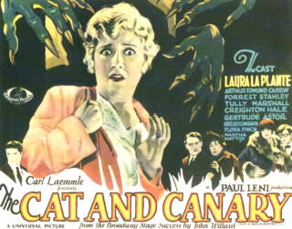 Theatrical poster for film The Cat and the Canary (1927). Note that the title is printed incorrectly as The Cat and Canary. © 1927, Universal Pictures Corp.